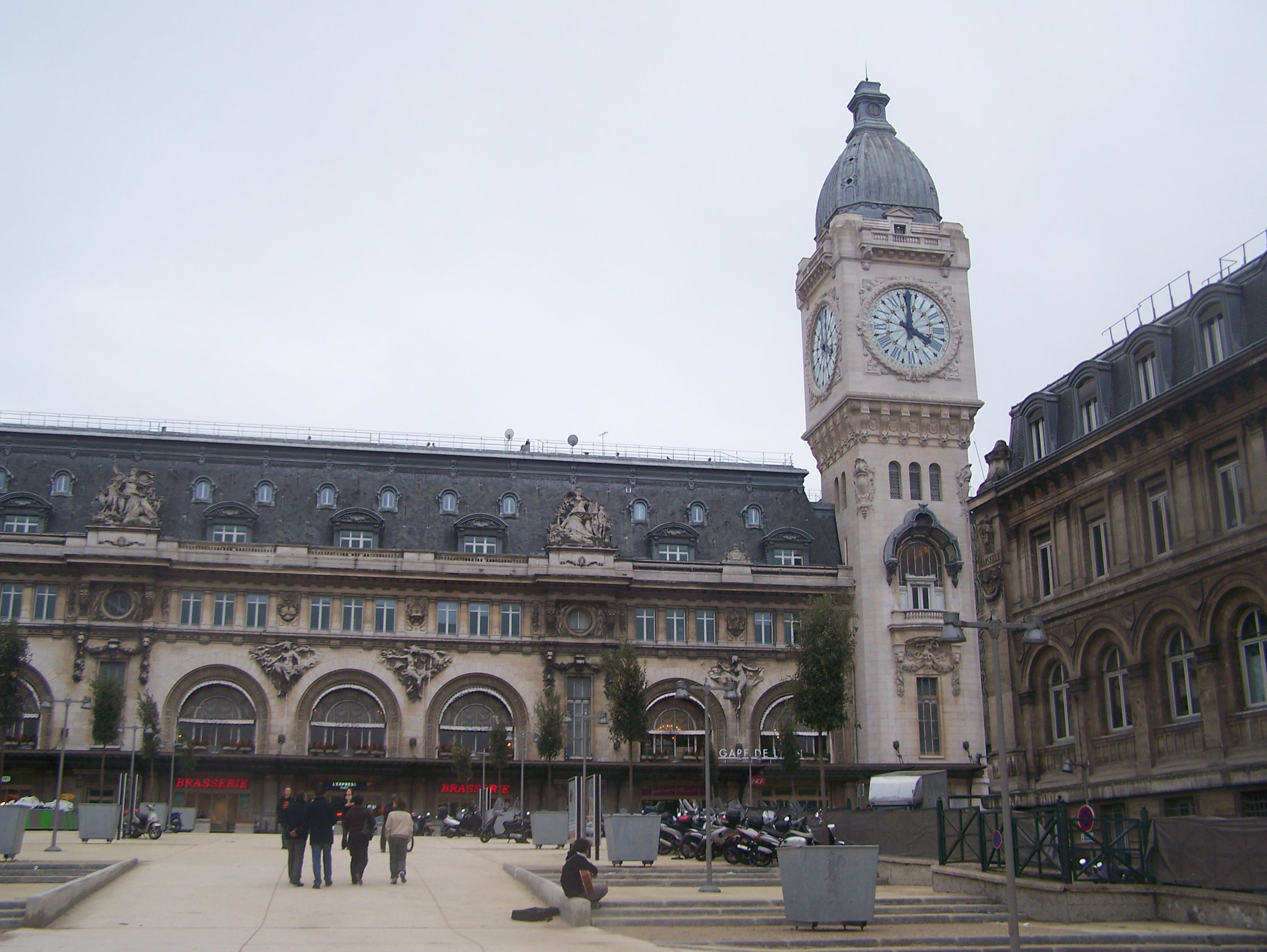 Entrance of the Paris gare de Lyonrailway station in Paris, France.